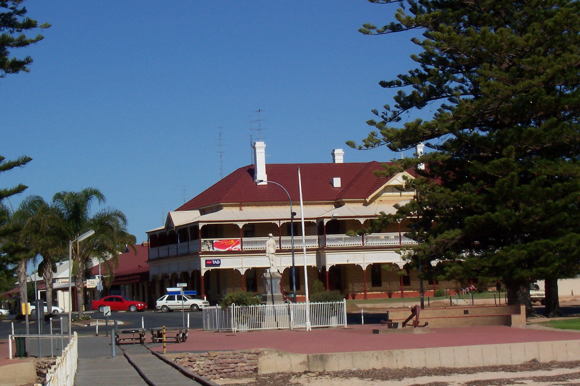 Port Broughton hotel from the jetty Source: Photo by Scott Davis